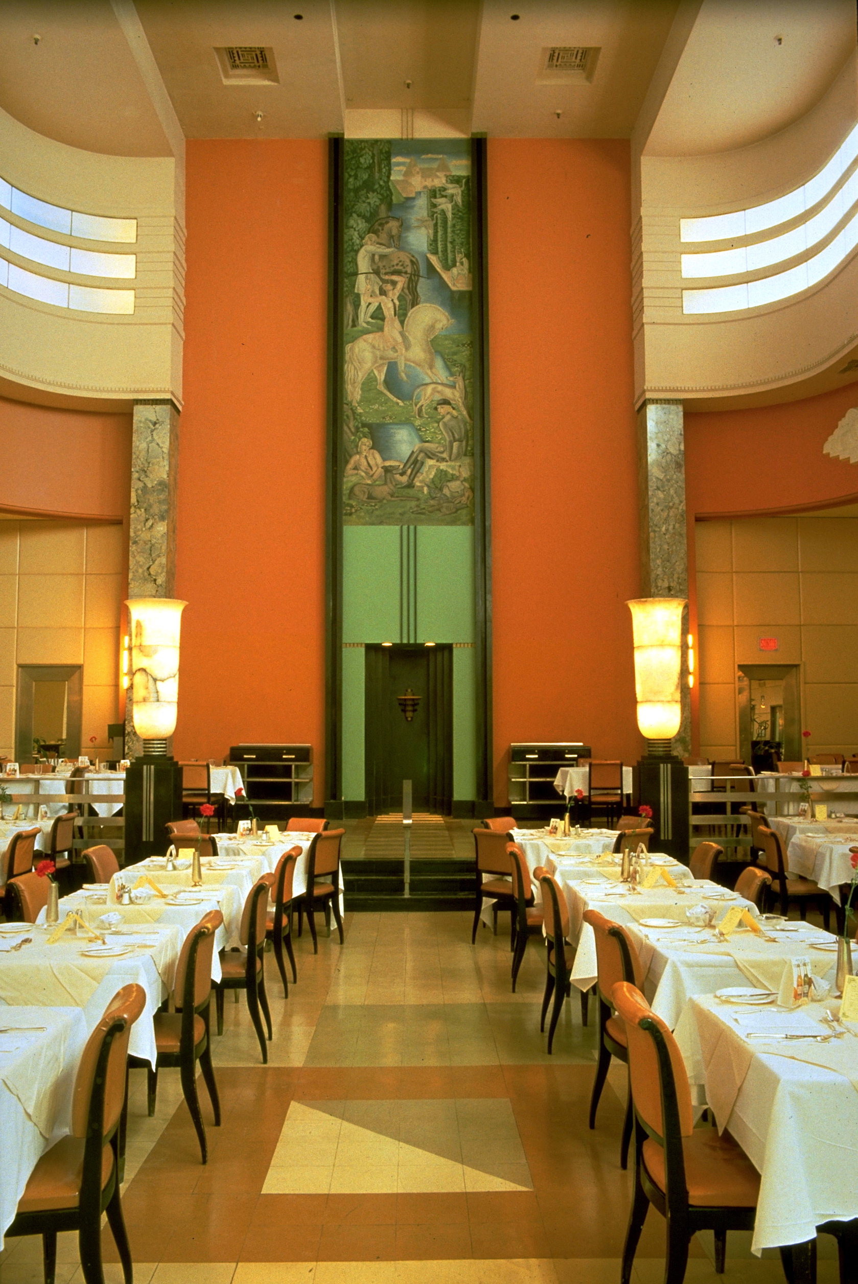 Ninth Floor restaurant in former Eaton's store in Montreal, Canada, taken in 1987. Uploaded in Flckr on November 10, 2006 by colros.